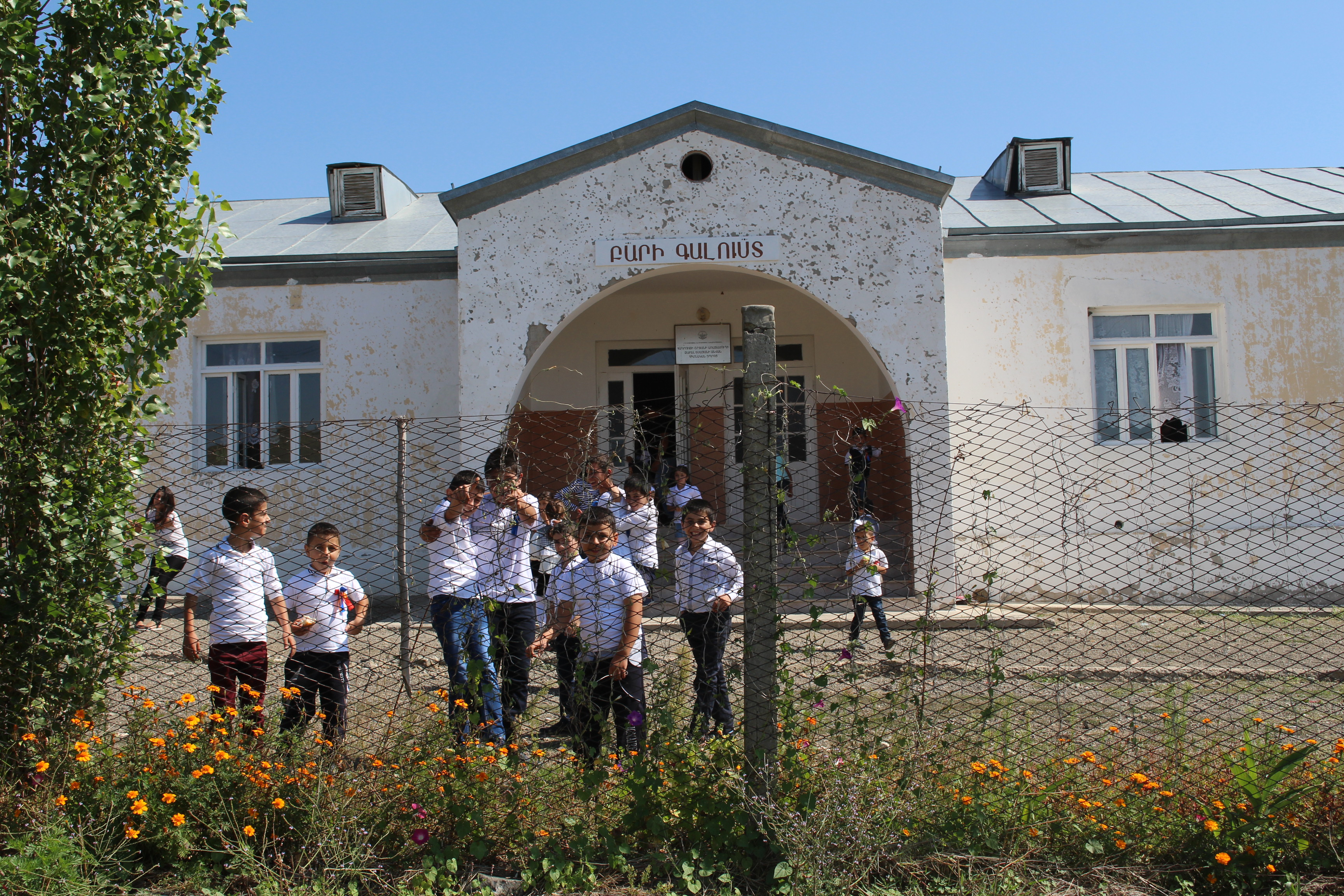 Children are playing in the school's yard